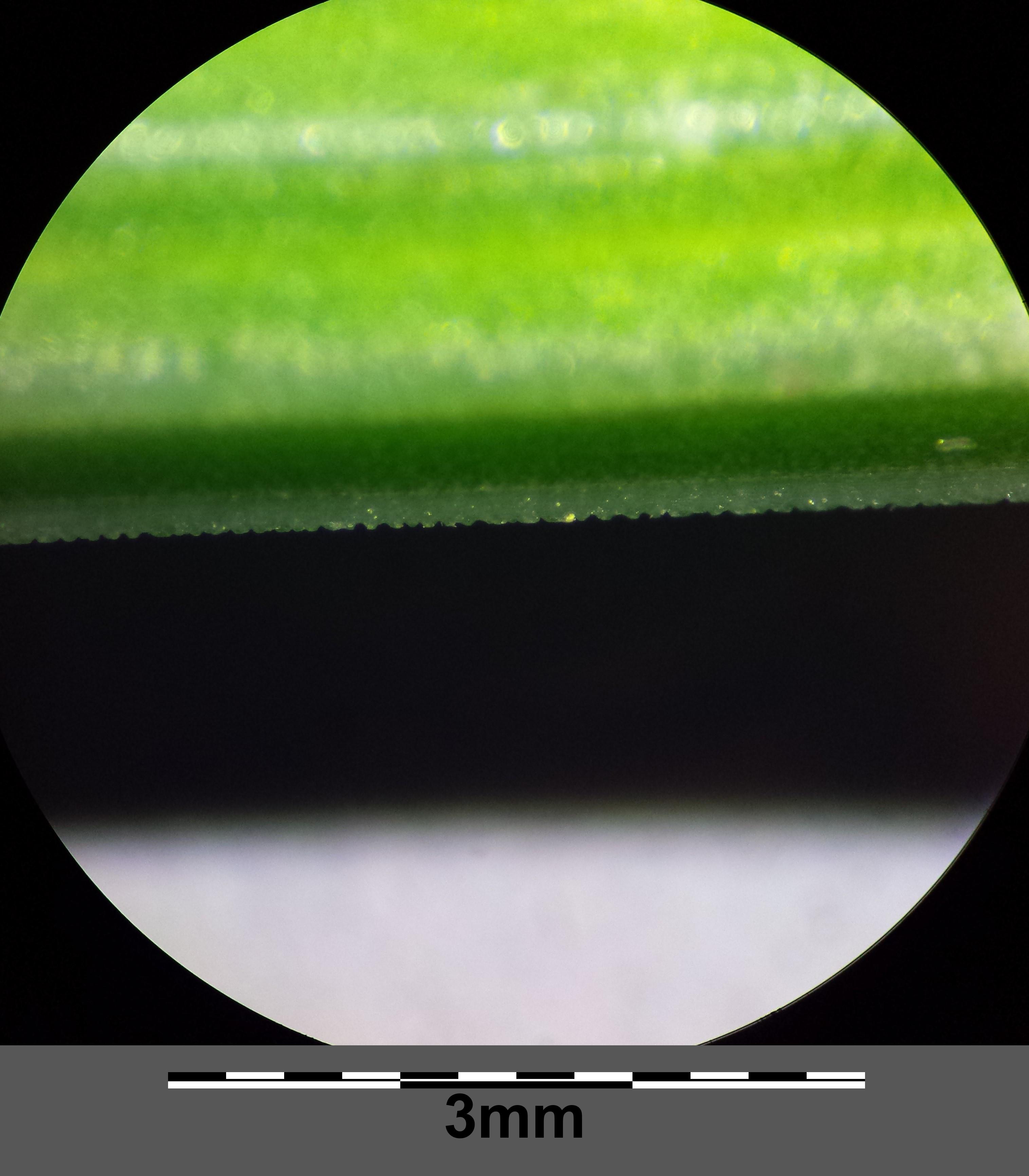 Stem with papilla Taxonym: Equisetum palustre ss Fischer et al. EfÖLS 2008 ISBN 978-3-85474-187-9 Location: near Praunsberger Wald near Niederhollabrunn, district Korneuburg, Lower Austria - ca. 300 m a.s.l. Habitat: wet meadows